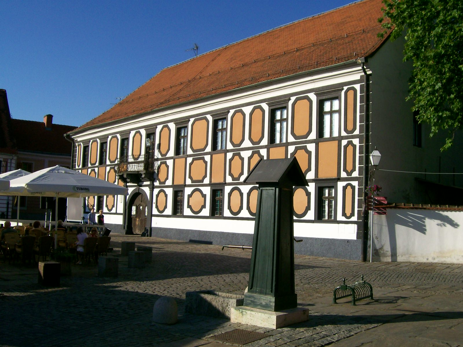 Sermage Palace, Varaždin